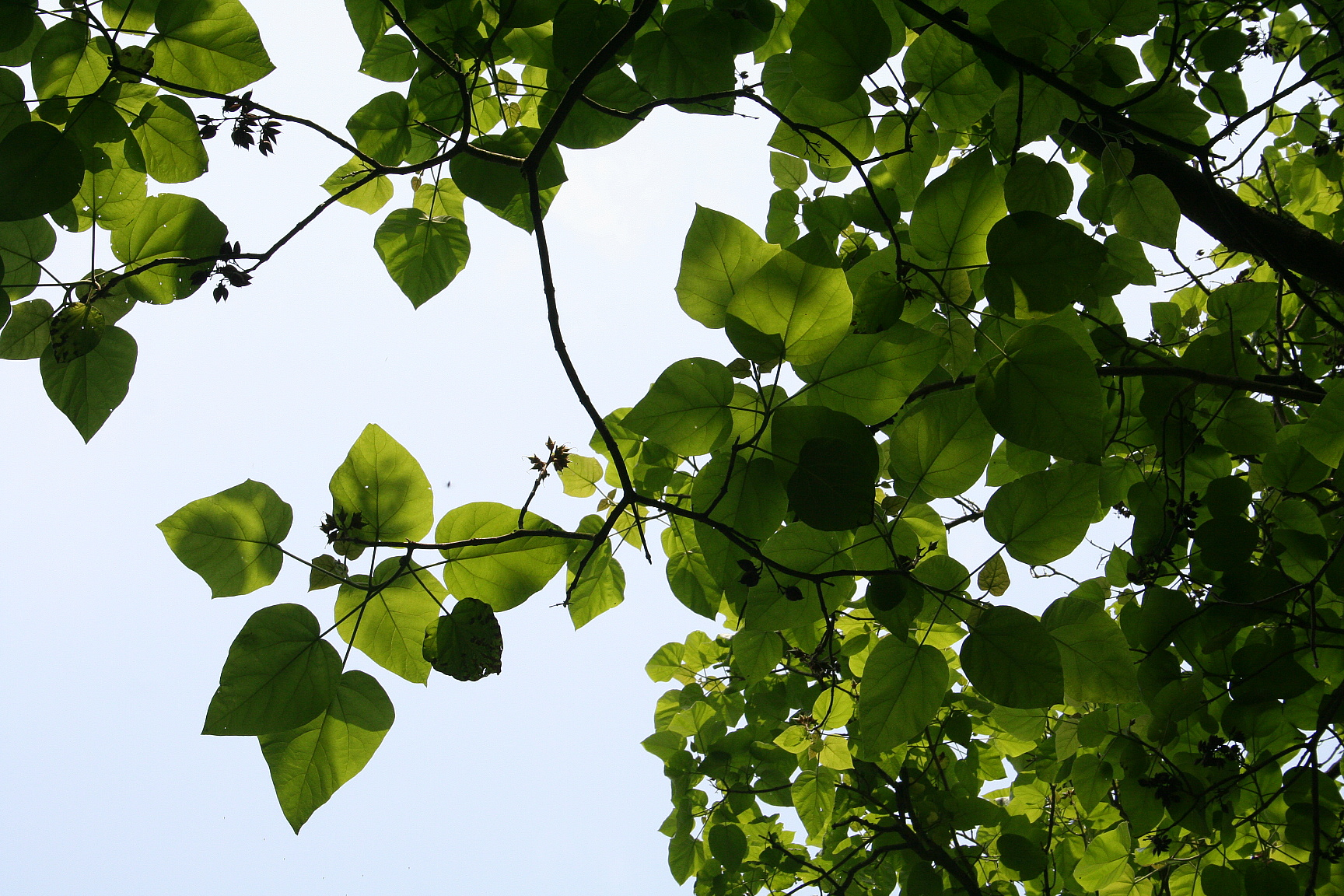 Foliage of the Empress Tree or Foxglove Tree (Paulownia tomentosa). '